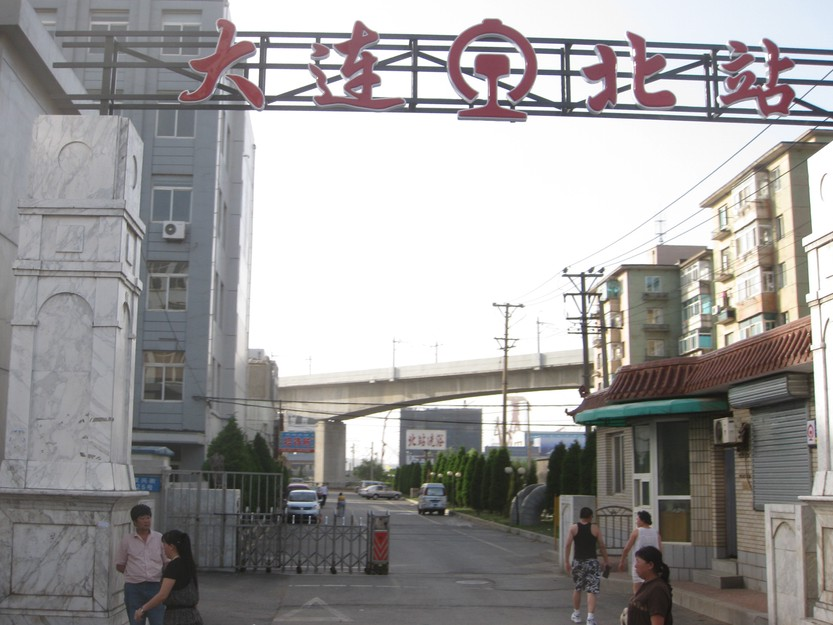 Gate of Dalian North Station